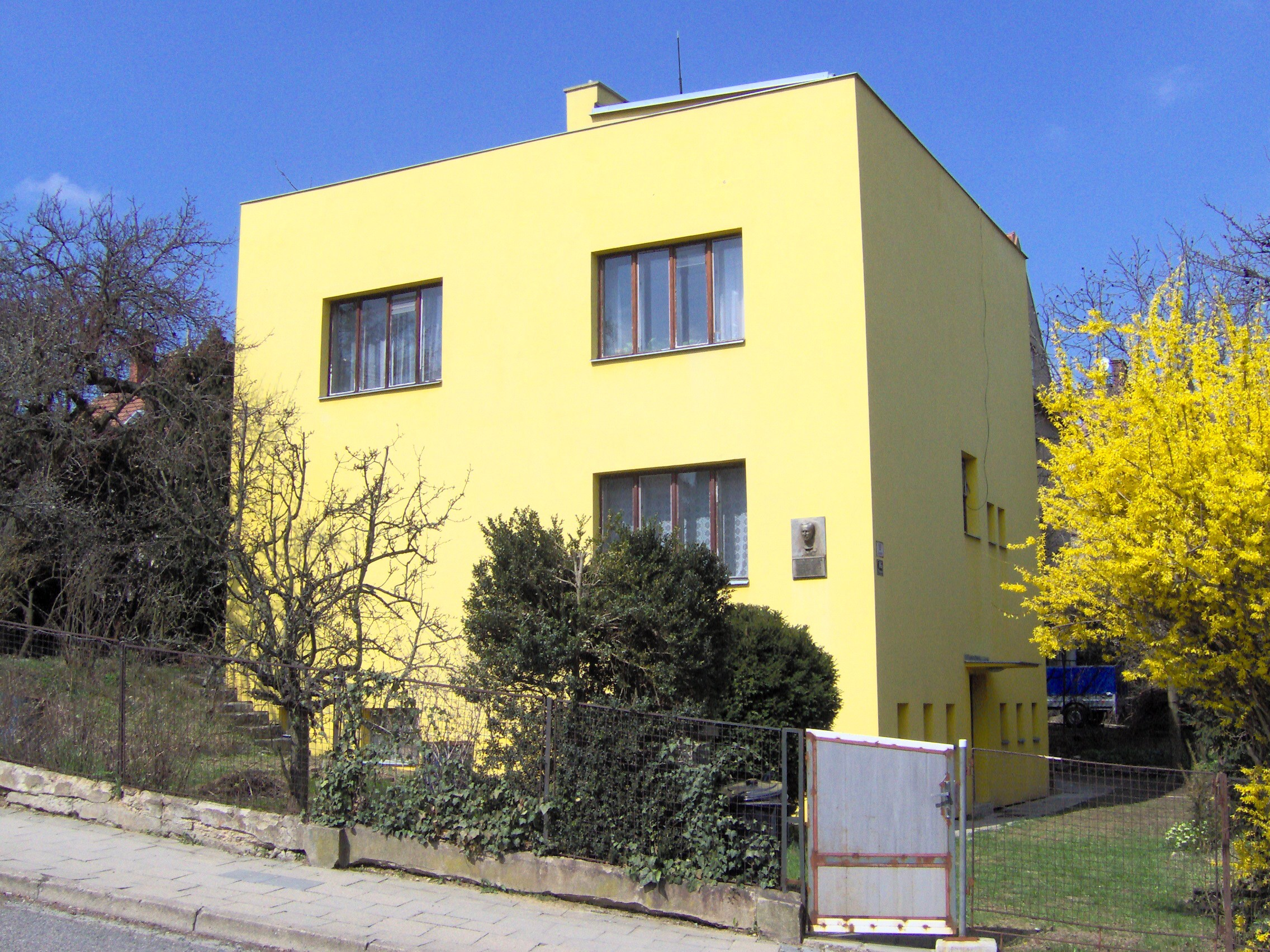 Villa, Brno, Czech Republic